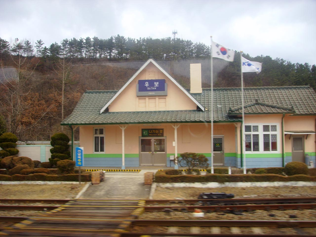 Jungang Line Ubo Station